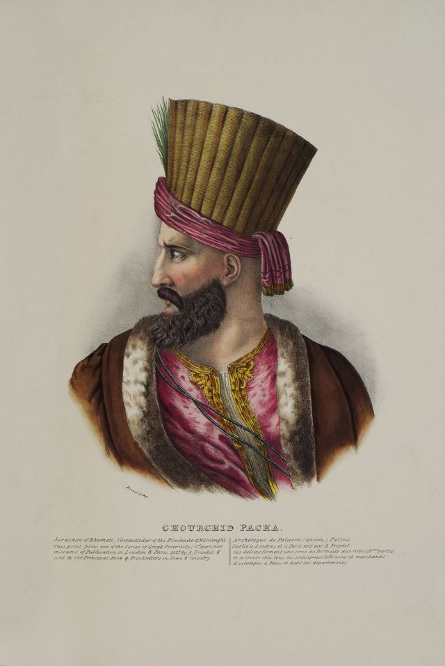 Portrait of Hurshid Pasha.